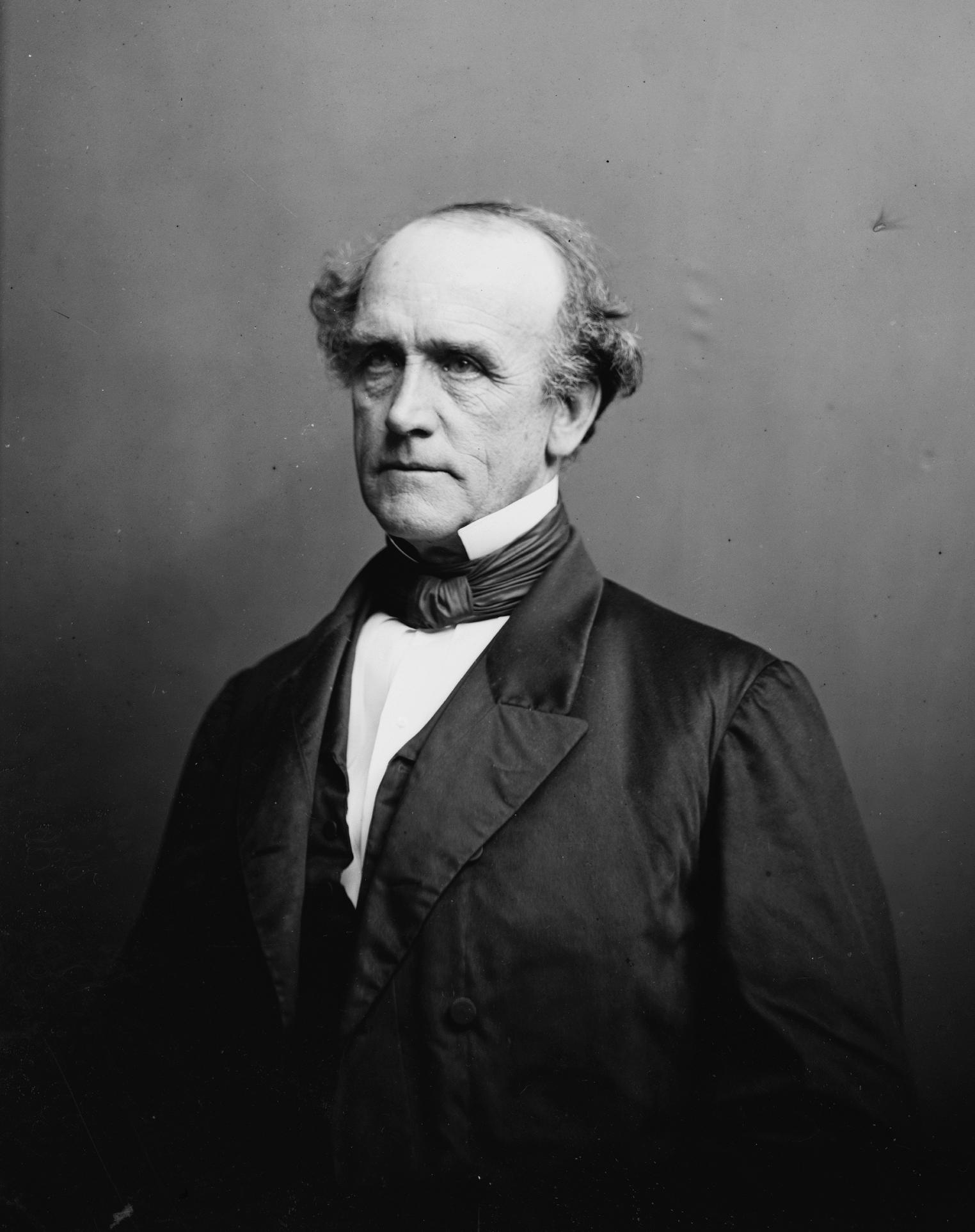 Portus Baxter. Library of Congress description: "Baxter, Hon. Portus of Vermont"